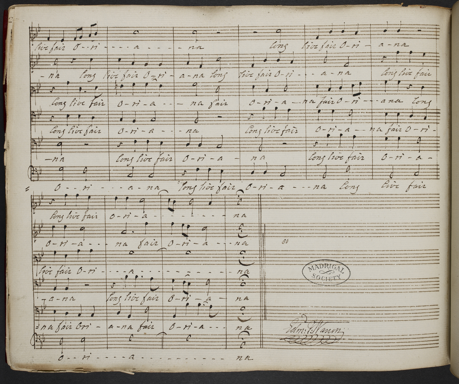 The Lady Oriana. In the hand of Thomas Edmund Warren.